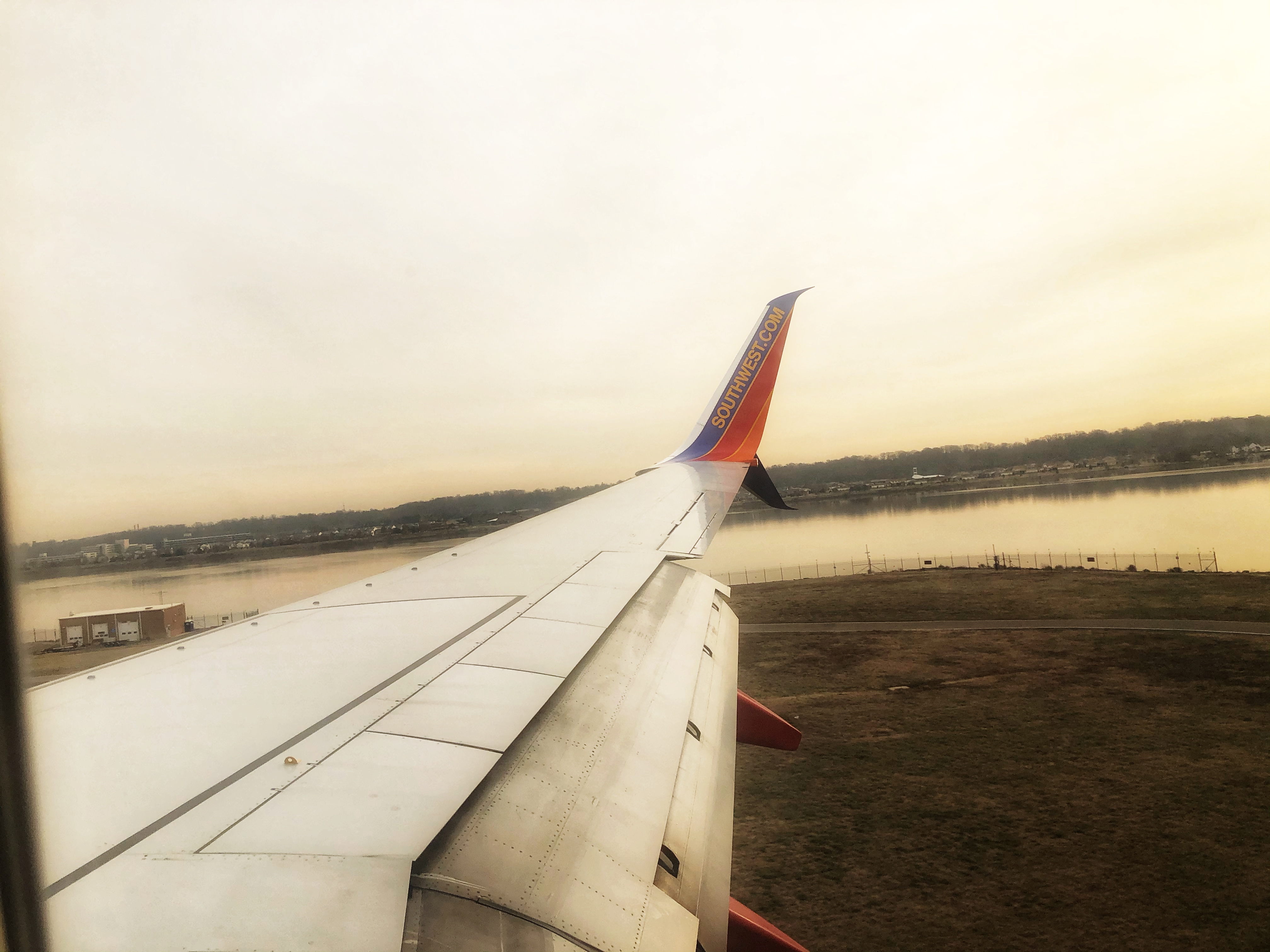 View of Potomac River from DCA Airport.